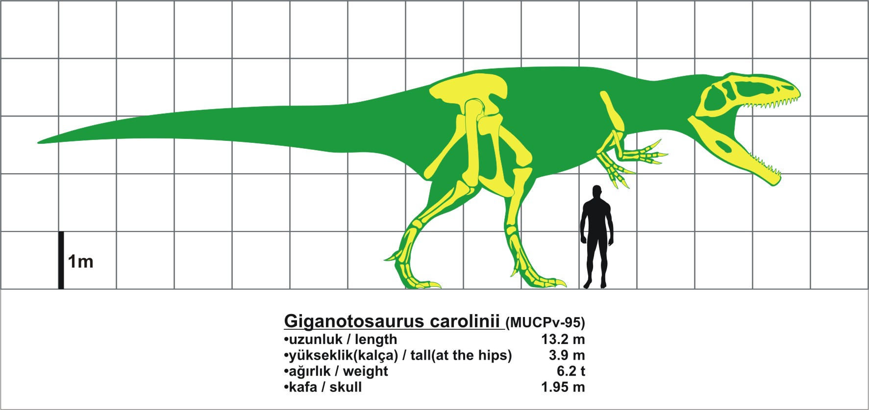 Size comparison of Giganotosaurus carolinii, reconstruction kindly provided by Oktaytanhu.